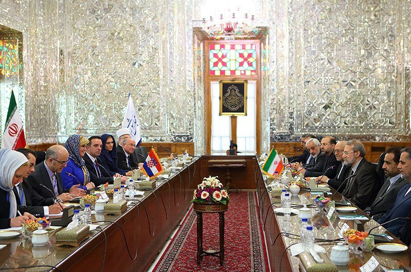 Kolinda Grabar-Kitarović in meeting with Ali Larijani, spokeman of Islamic Consultative Assembly (Parliament of Iran).